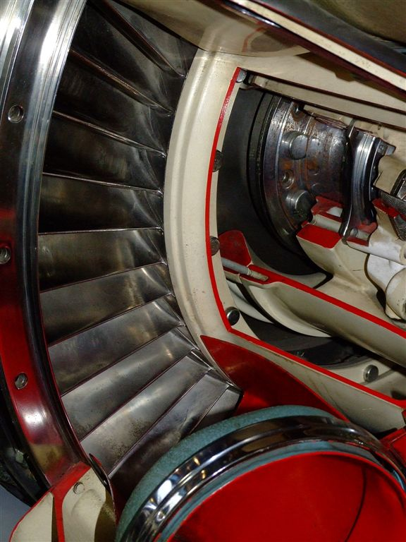 Turbine of a Rolls-Royce Nene turbojet engine at the Science Museum, London.